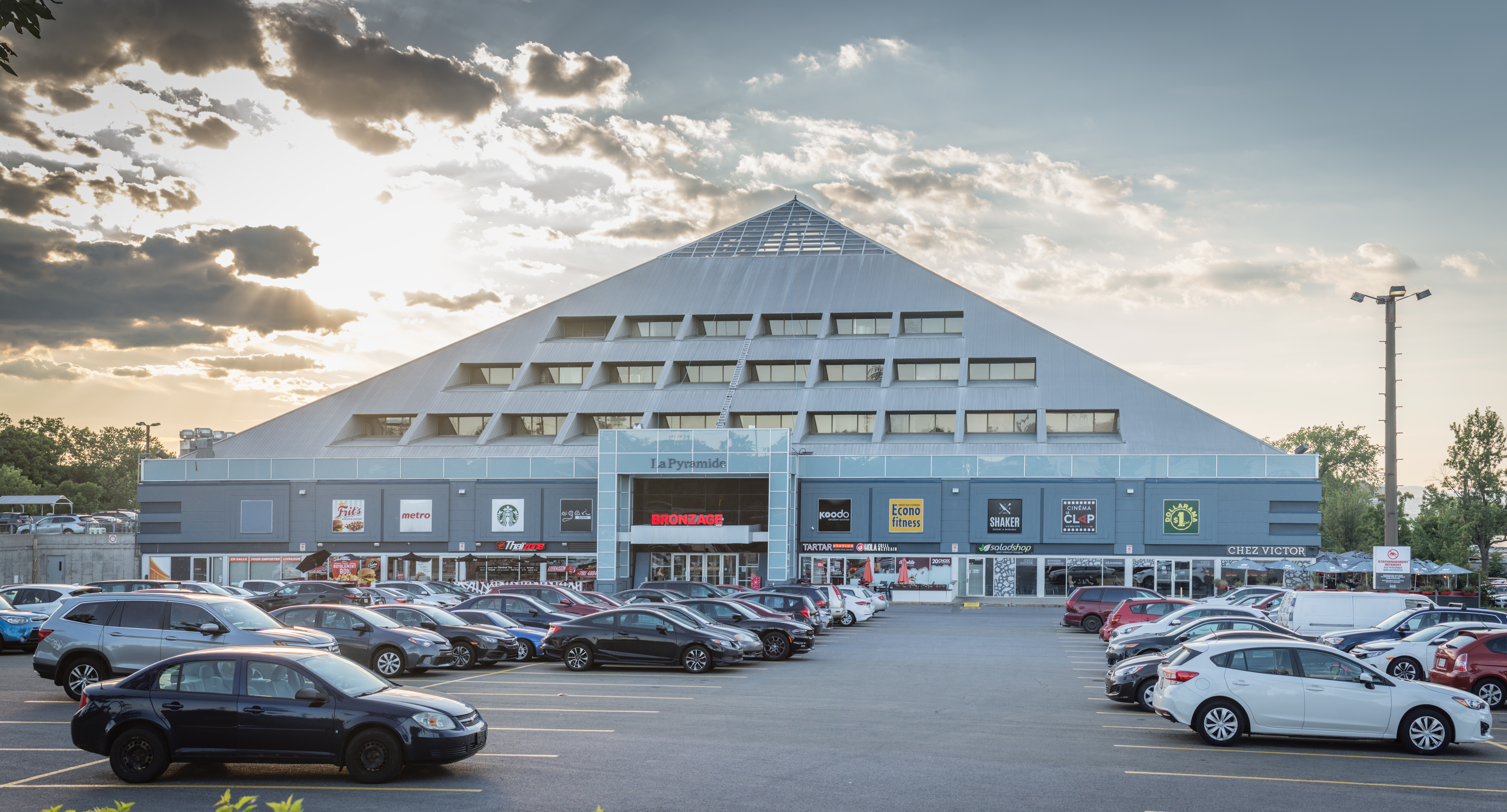 La Pyramide de Sainte-Foy